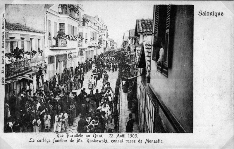 Funeral of Russian Council of Bitola in Solun, the street nowadays is called Basileus Bulgaroktonos, Thessaloniki